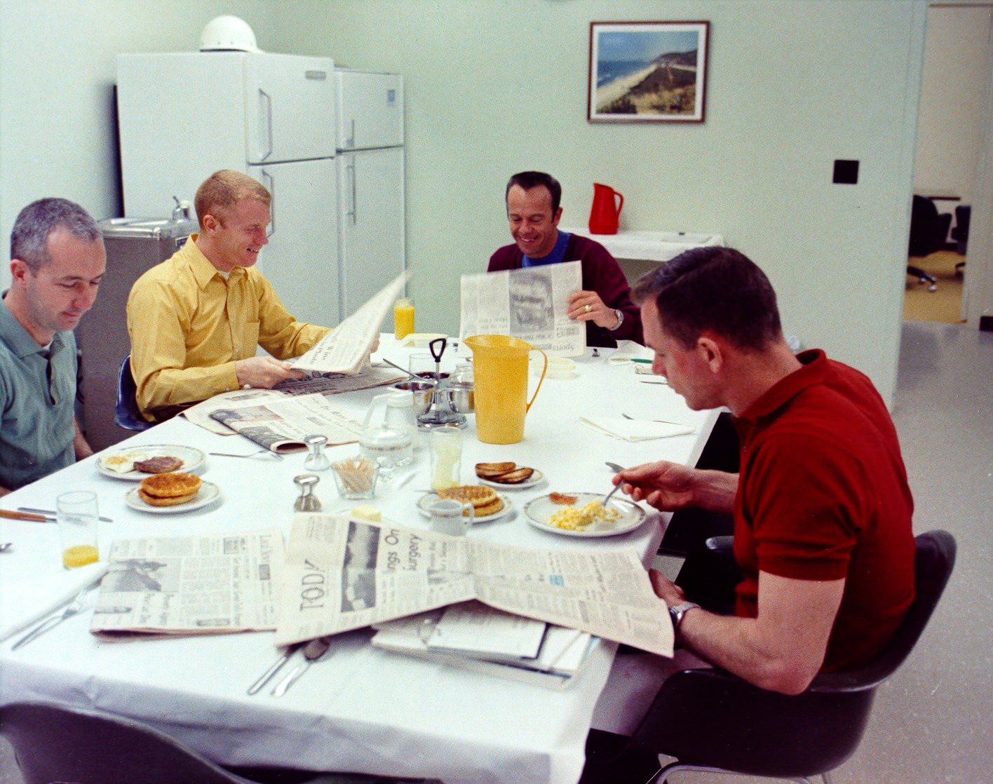 Alan Shepard joins Apollo 9 astronauts for breakfast during training.